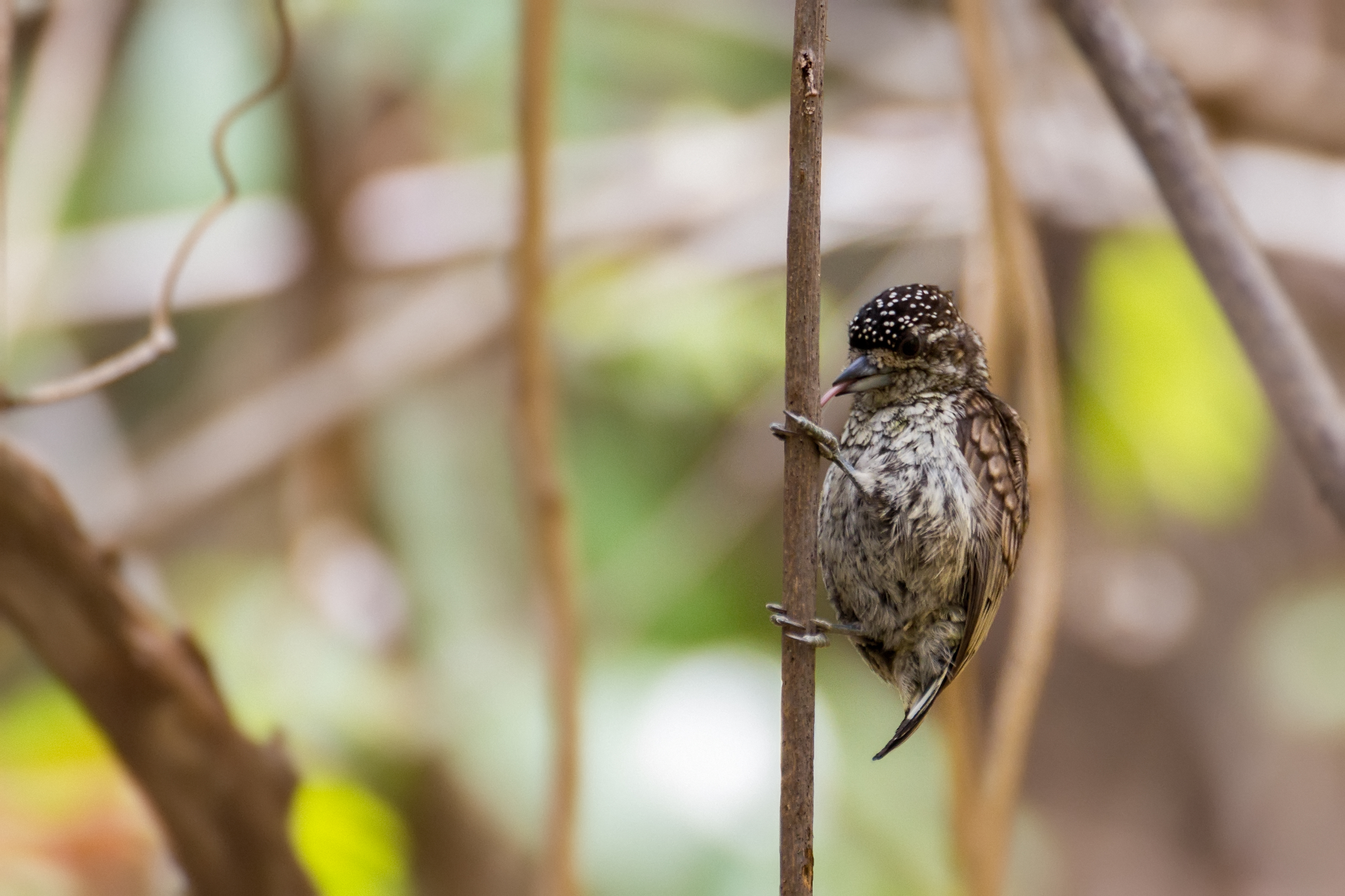 Scaled Piculet (Picumnus squamulatus rohli) (♀)